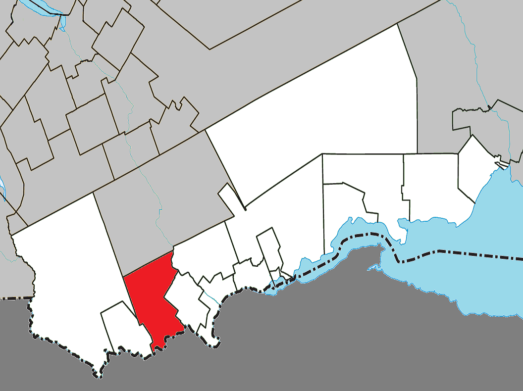 Location of Saint-François-d'Assise, Quebec within Avignon Regional County Municipality.